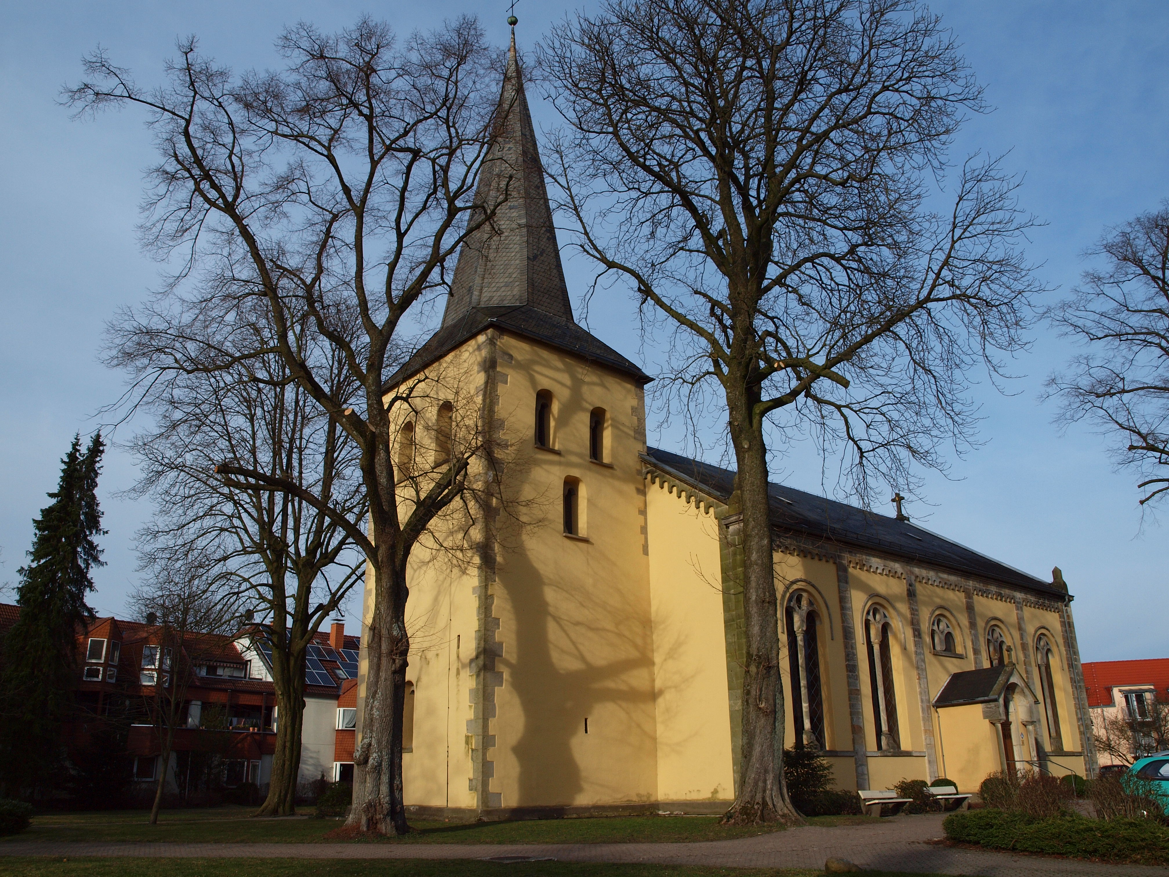 Protestant-reformed church in Schlangen